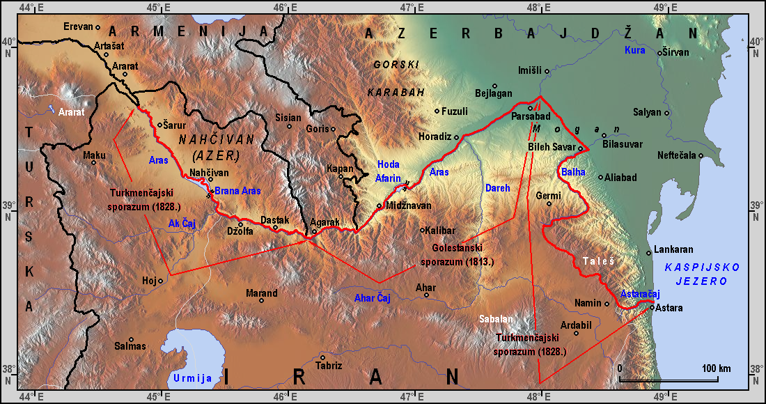 Iran-Armenia-Azerbaijan border with Croatian descriptionHrvatski: Granica Irana s Armenijom i Azerbajdžanom